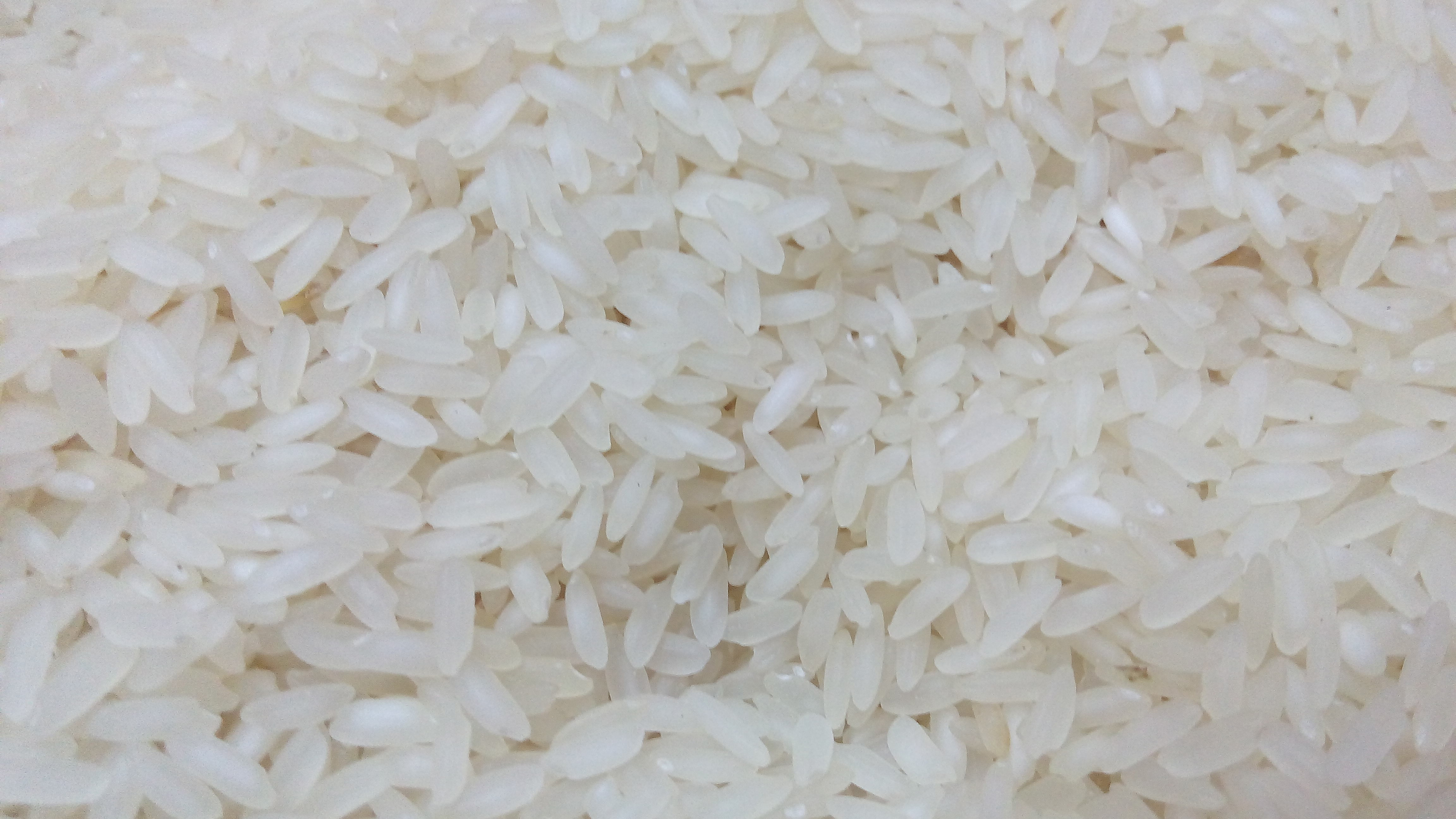 Piràmide d'aliments de l'Empordà